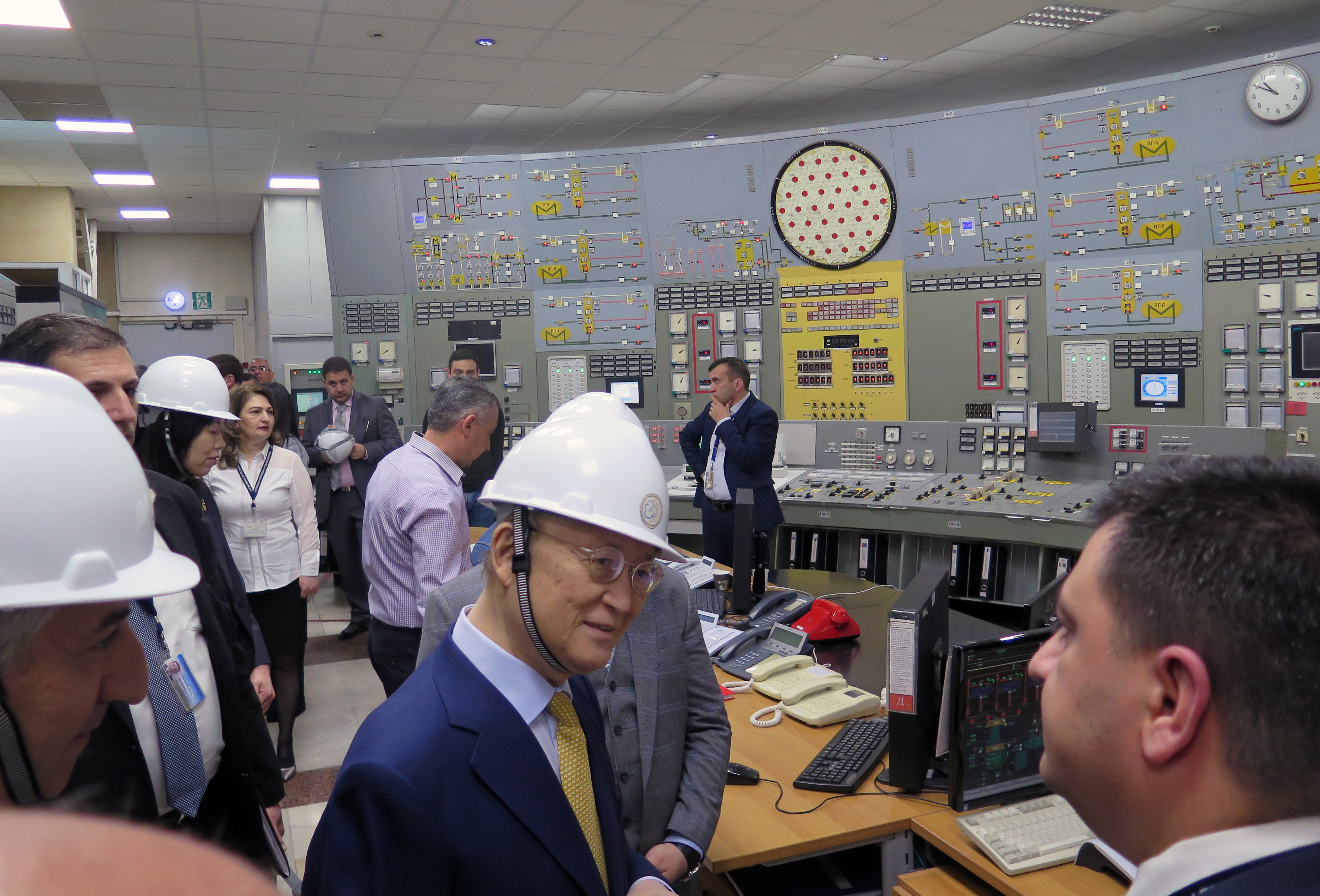 Yukiya Amano Official Visit to Armenia IAEA Director General Yukiya Amano tours the Armenian Nuclear Power Plant (ANPP) in Metsamor during his official visit to Armenia. 29 April 2019 Photo Credit: Edgard Perez Alvan